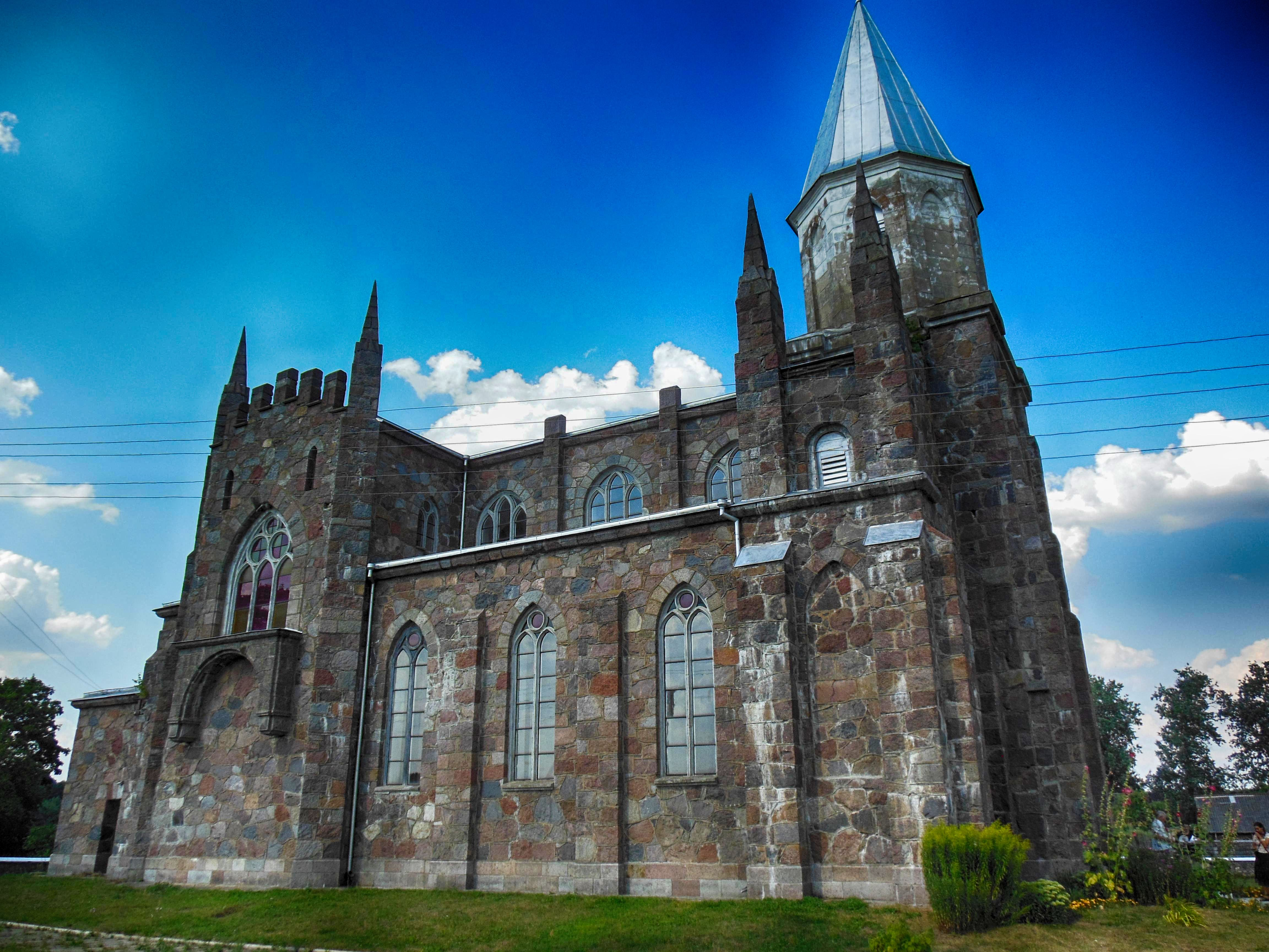 Our Lady of the Rosary church in Pieski, Belarus